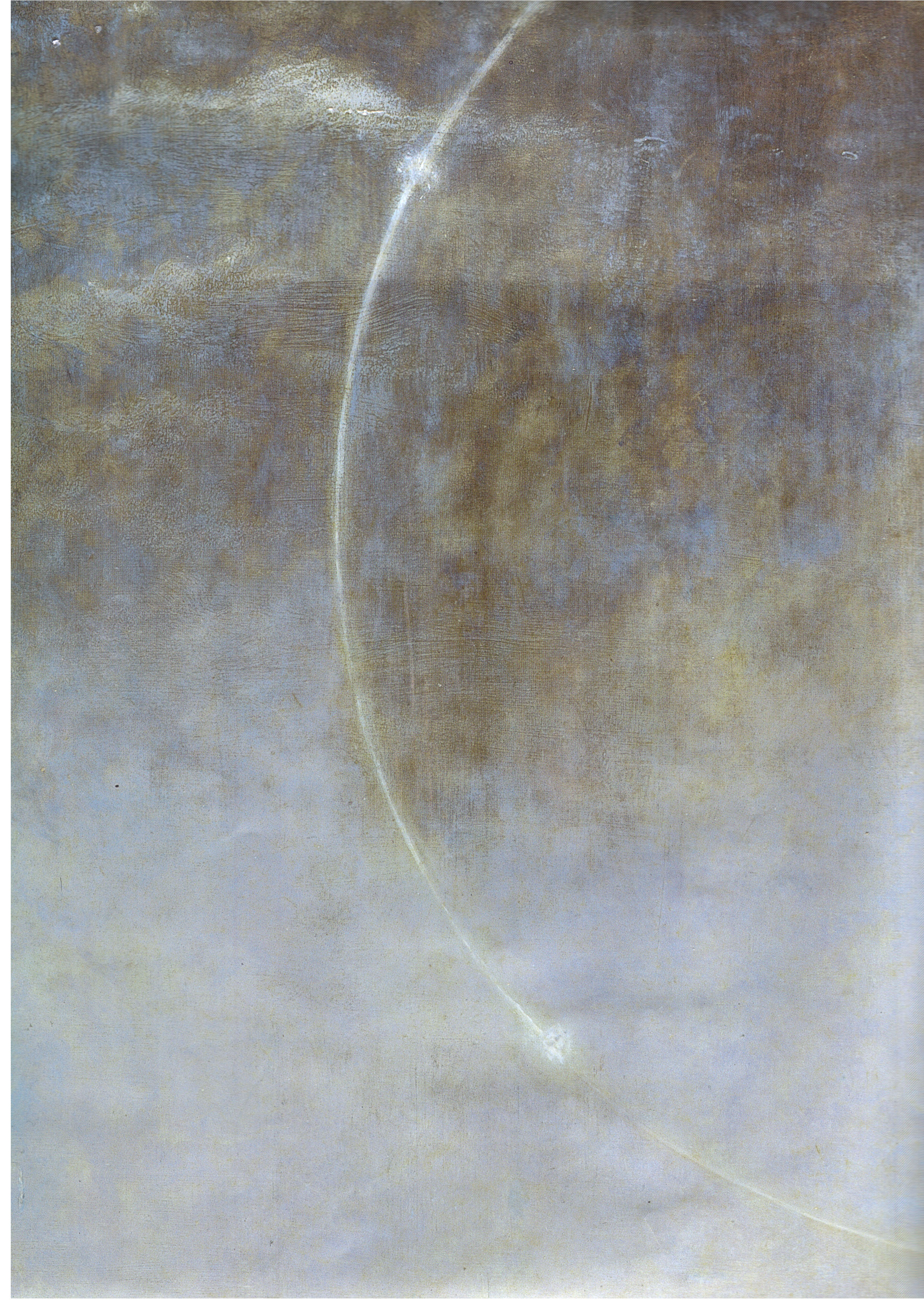 Detail from Vädersolstavlan showing a w:120° parhelion and an Anthelion on a Parhelic circle.